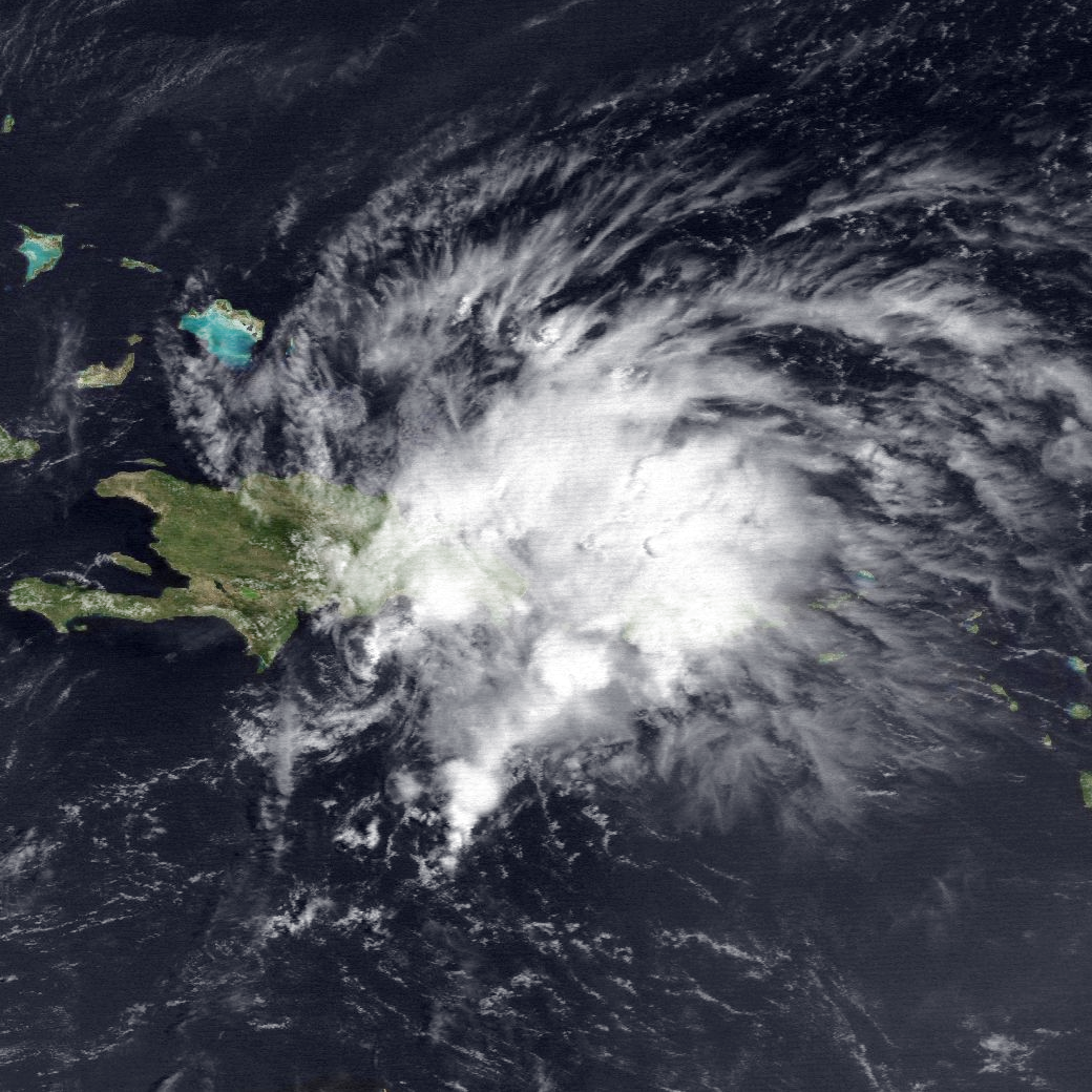 Tropical Storm Cindy shortly after peak intensity making landfall on the island of Hispaniola on August 16, 1993